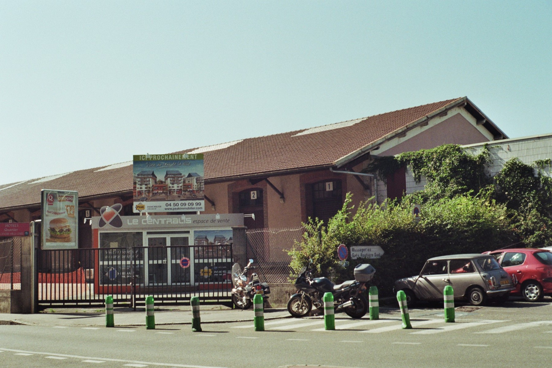 Raylways station of Annecy (France): the disused freight service just before demolition.